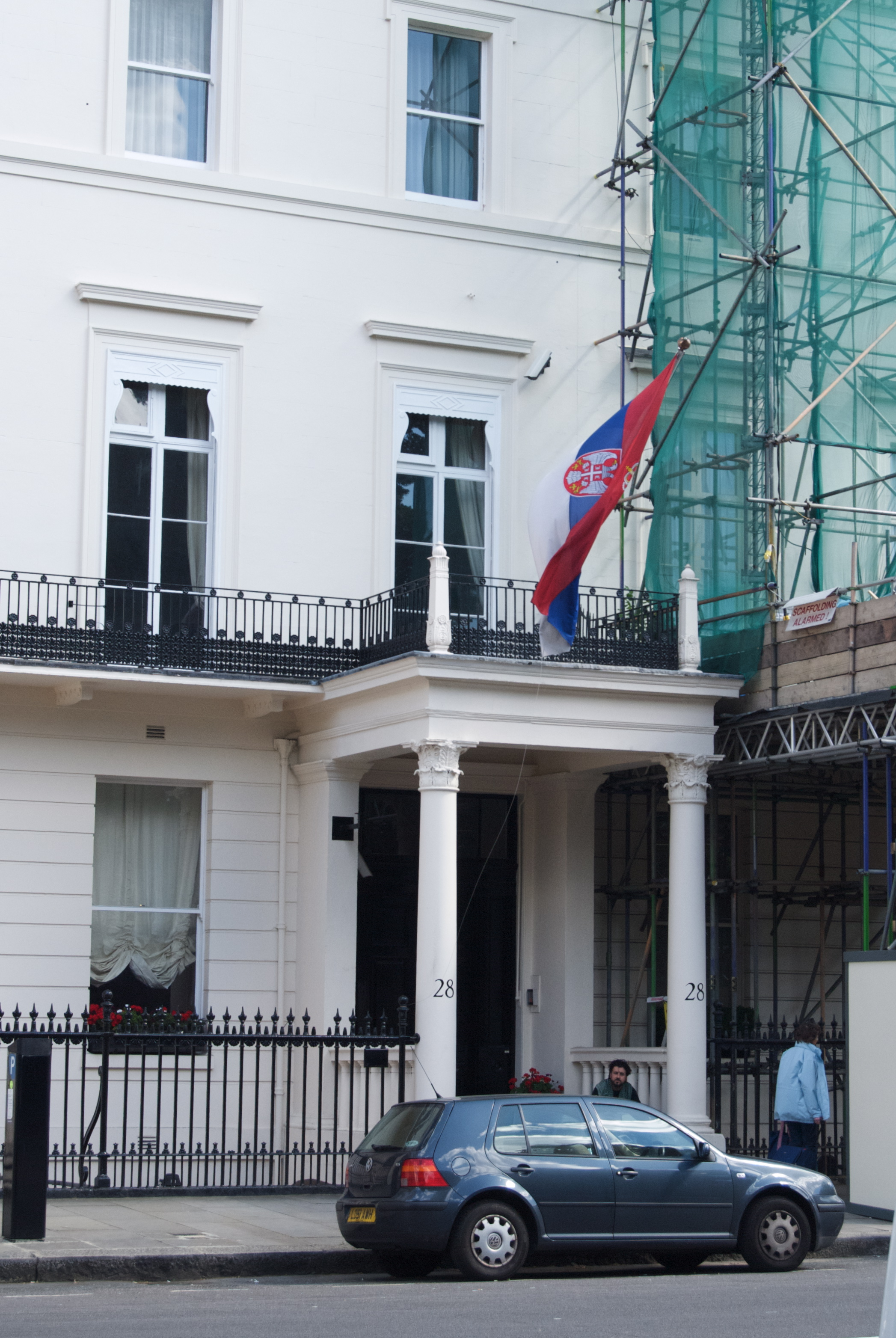 The Serbian embassy in London - Belgrave Square